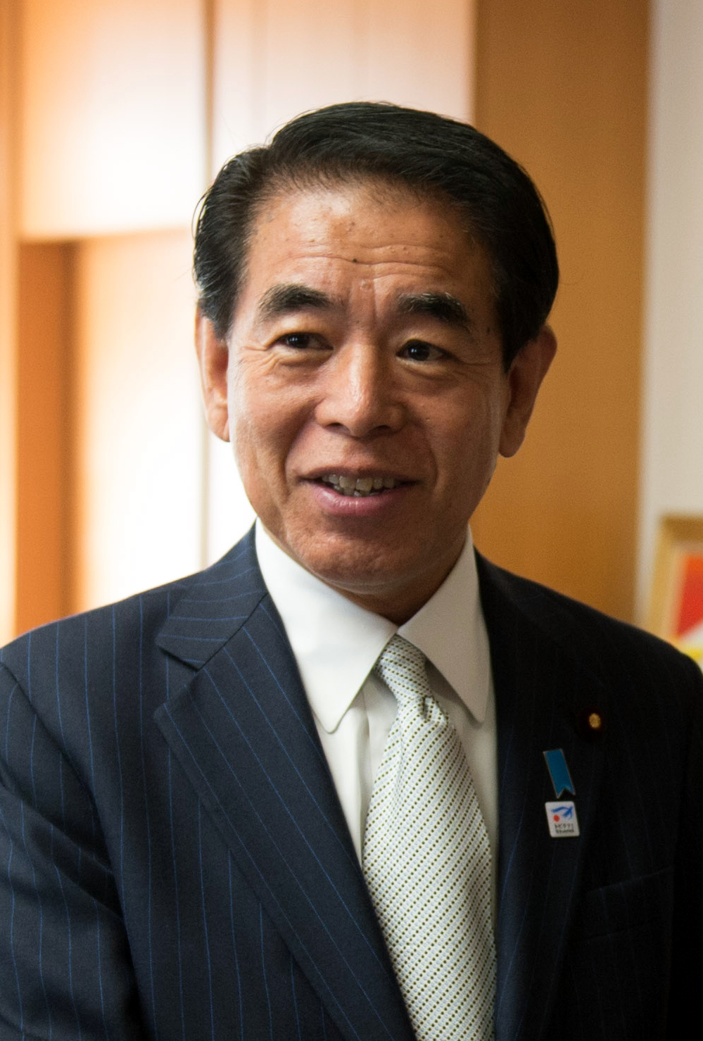 Ernest Moniz, Secretary of Energy, met Hirofumi Shimomura, Minister of Education, Culture, Sports, Science and Technology, at the Central Government Building No.7 in Chiyoda Ward, Tōkyō Metropolis on October 31, 2013.